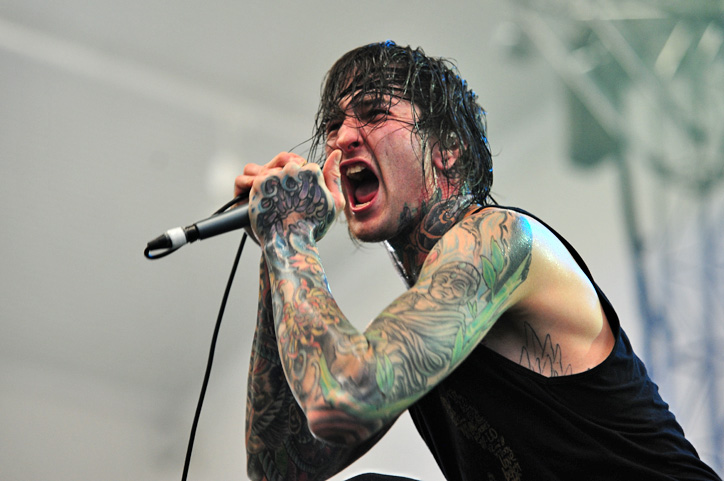 No Sleep Til Festival 2010